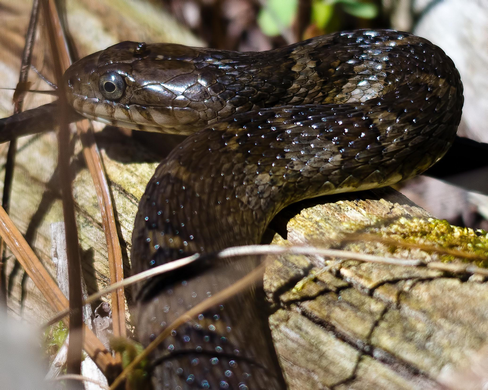 Taken at Morris Island conservation area, west of Ottawa, Ontario.